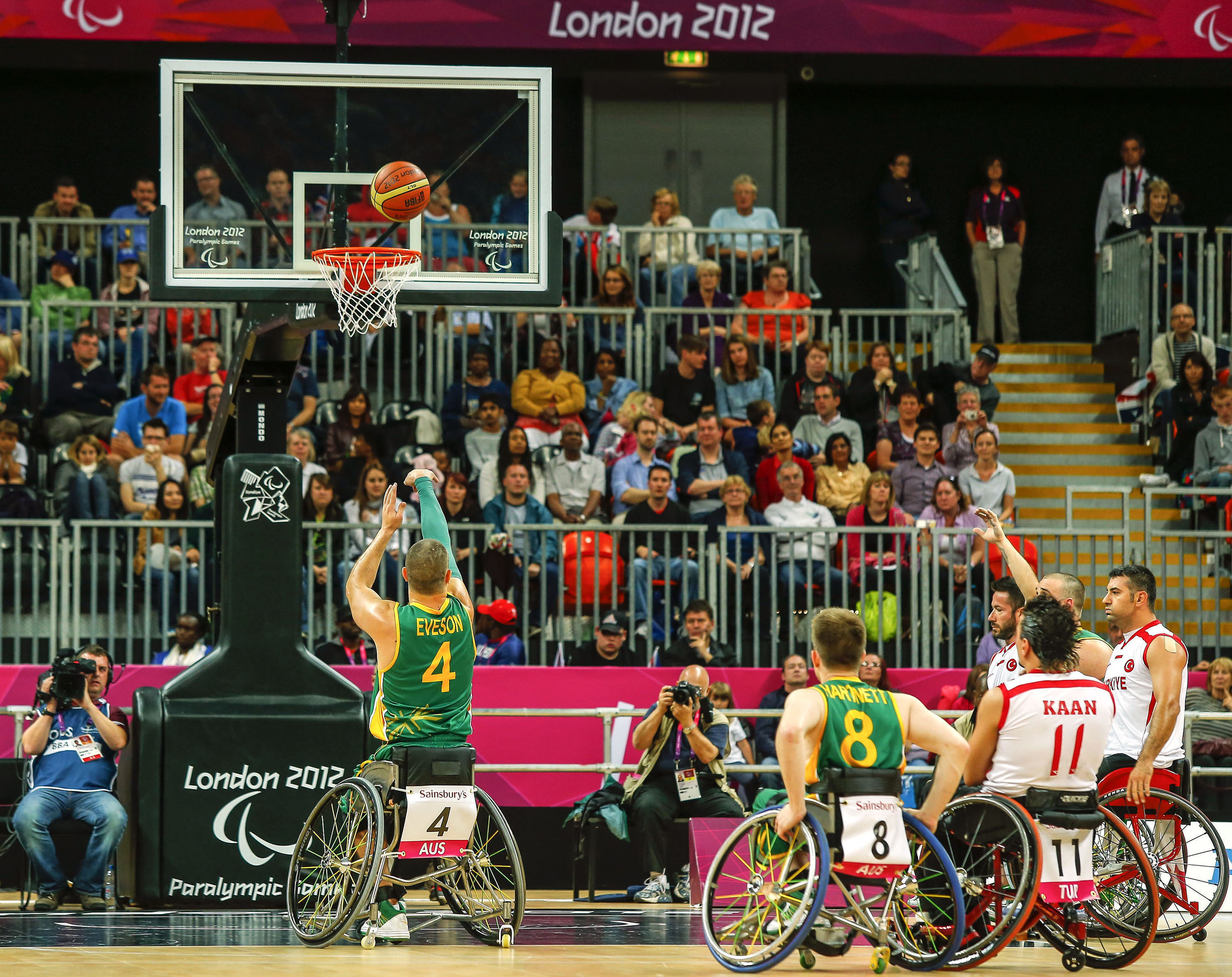 Photograph of Australian Paralympic team member Justin Eveson at the 2012 Summer Paralympic Games in London